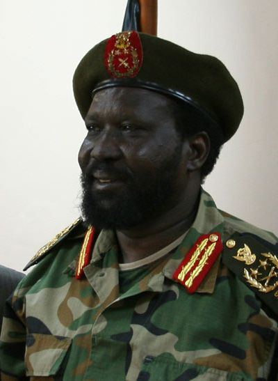 Salva Kiir is the President of Southern Sudan and was the First Vice president in Sudan before independence. He is also the leader of the political party Sudanese People's Liberation Movement, SPLM.